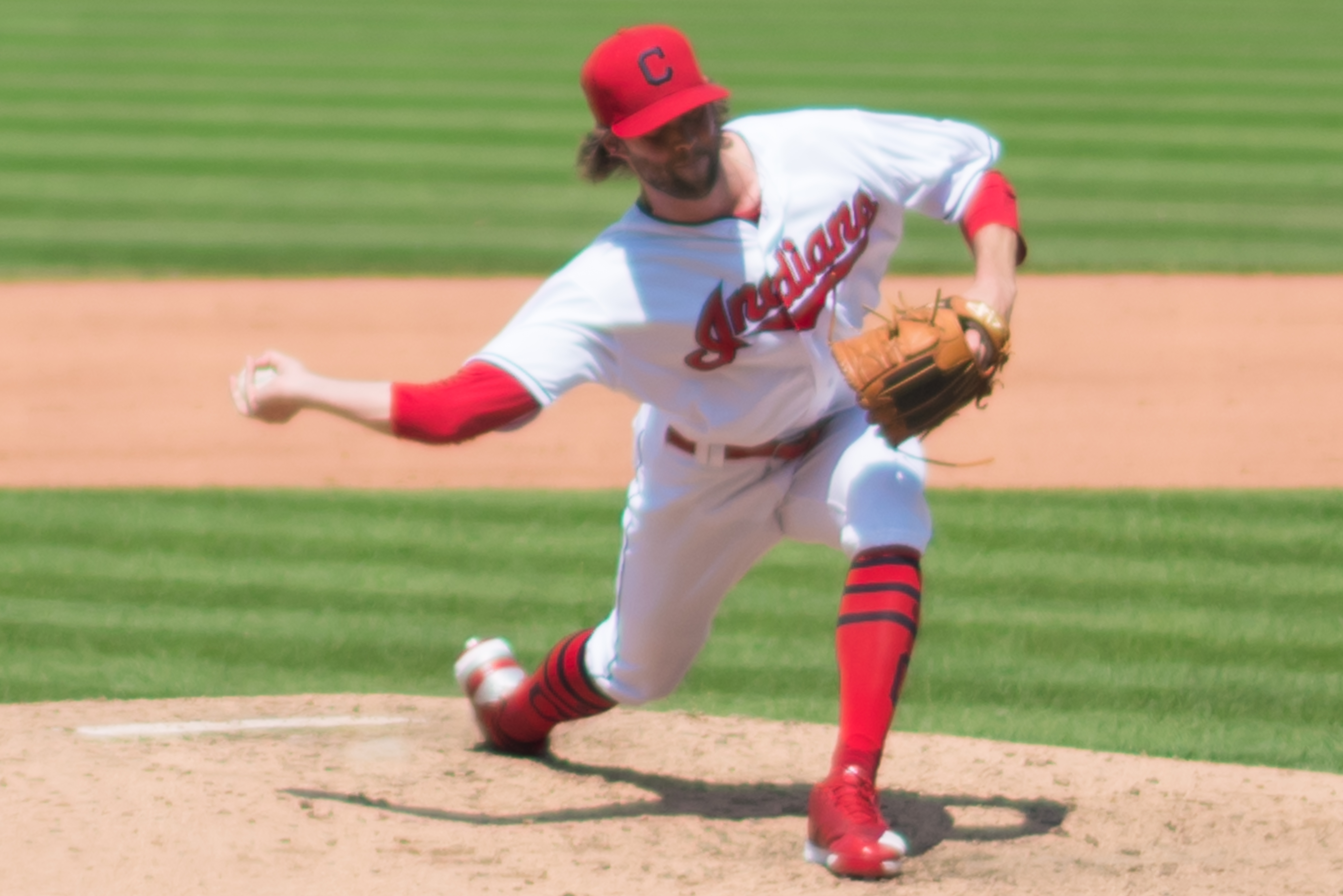 Adam Cimber delivers a pitch for the Cleveland Indians in an August 2018 game in Cleveland.